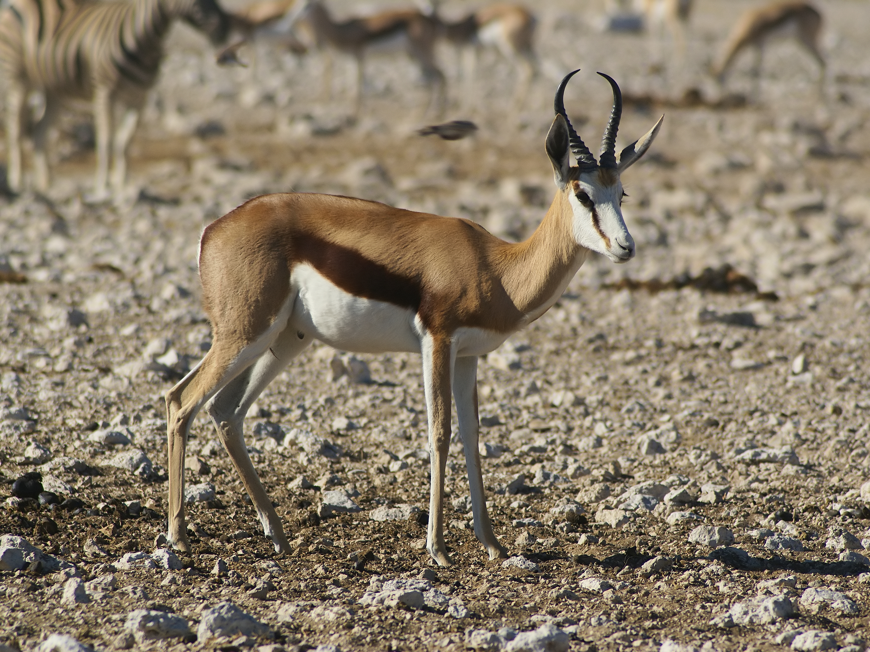 Springbok in Eastern Etosha, Namibia.